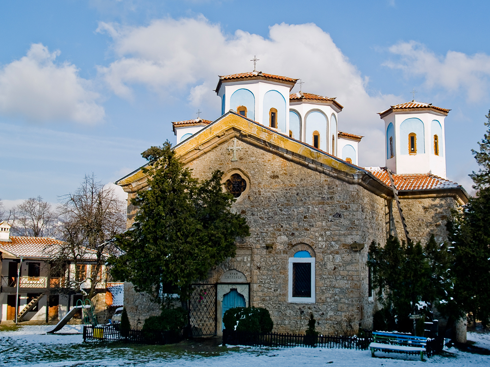 Etropole Monastery church and courtyard, Bulgaria